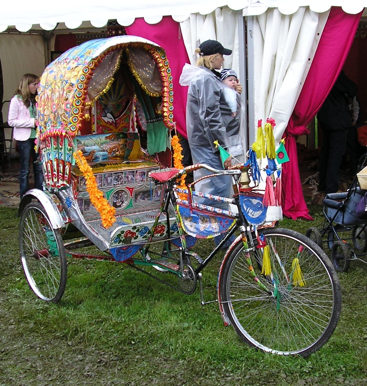 A Bangladeshi style rickshaw. Photographed by myself at Prins Bertil Memorial in Stockholm, Sweden 2005. (Note: The style is not similar to the one used in India. The stylized form of rickshaws with rickshaw art is prevalent in Bangladesh. The rickshaw being displayed has the flag of Bangladesh in the front handle-bar)